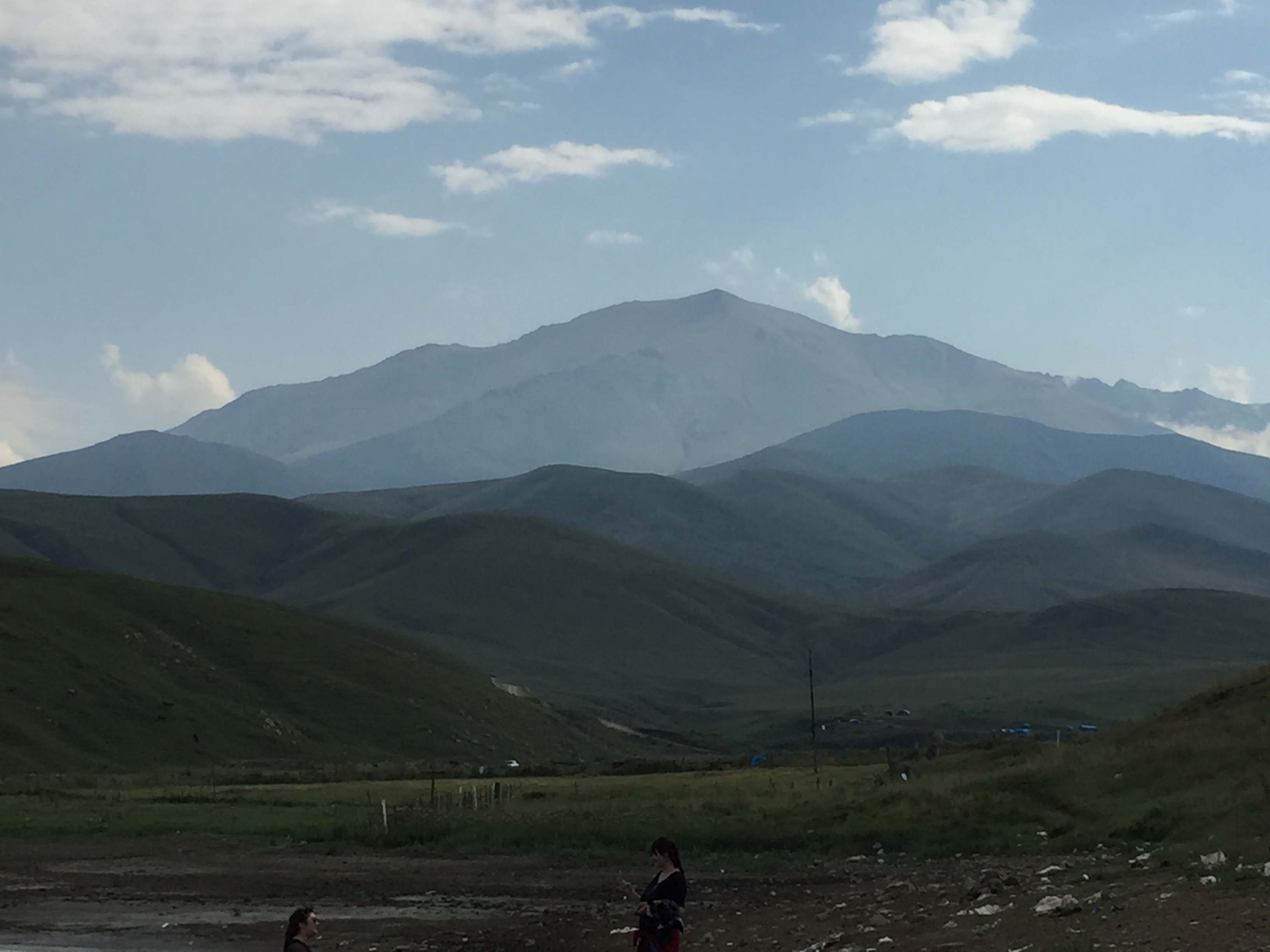 Goshqar Mountain, small Caucasus, Azerbaijan